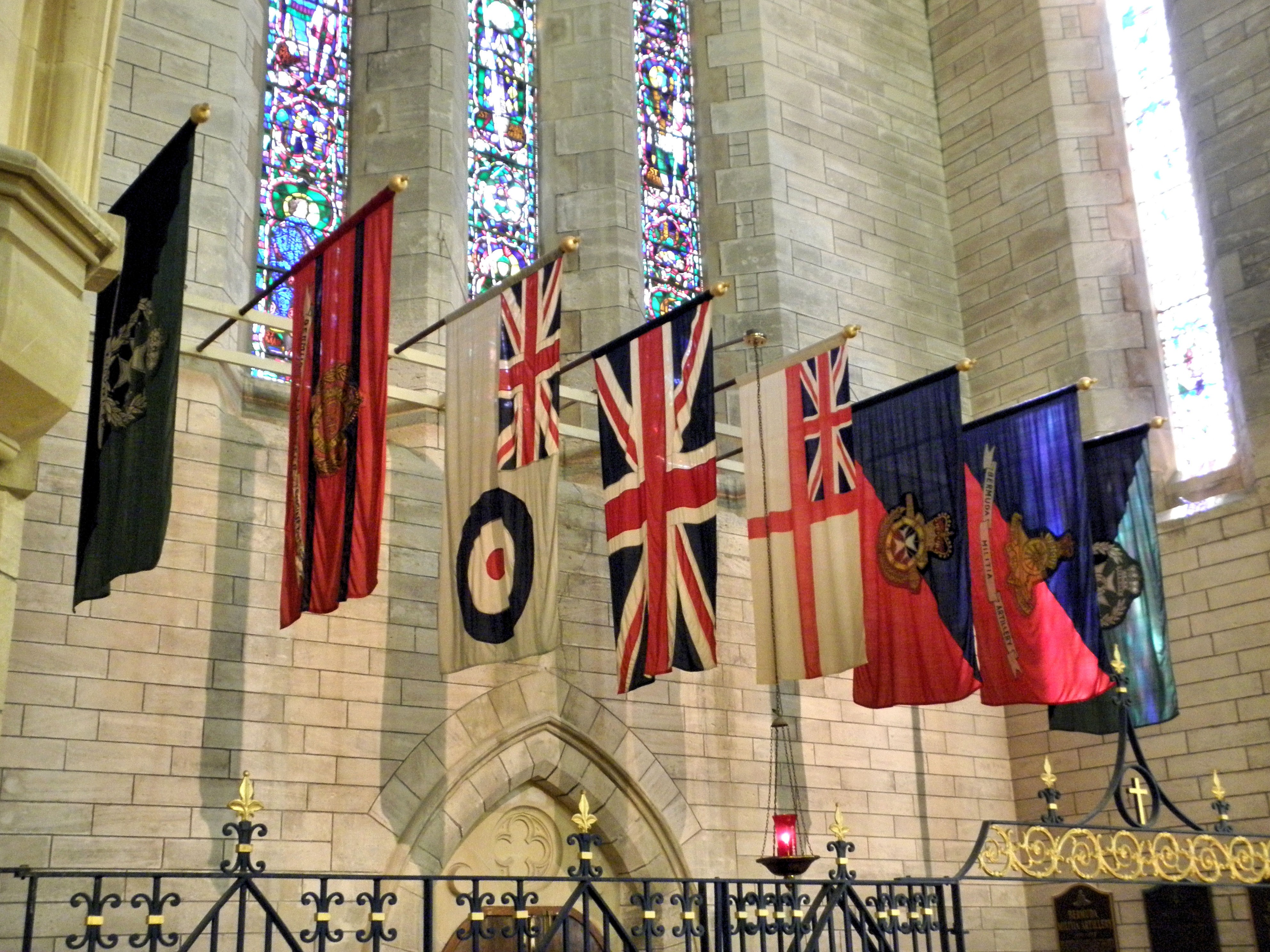 Row of flags hanging inside the Anglican Cathedral of the Most Holy Trinity, Hamilton, Bermuda, 2014.